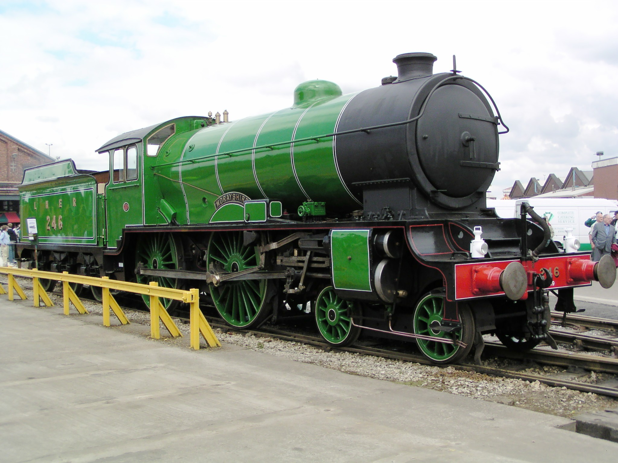 LNER 4-4-0 Class D49 no. 246 "Morayshire" at Doncaster Works open day on 27th July 2003. This locomotive is preserved on the Bo'ness & Kinneil Railway.